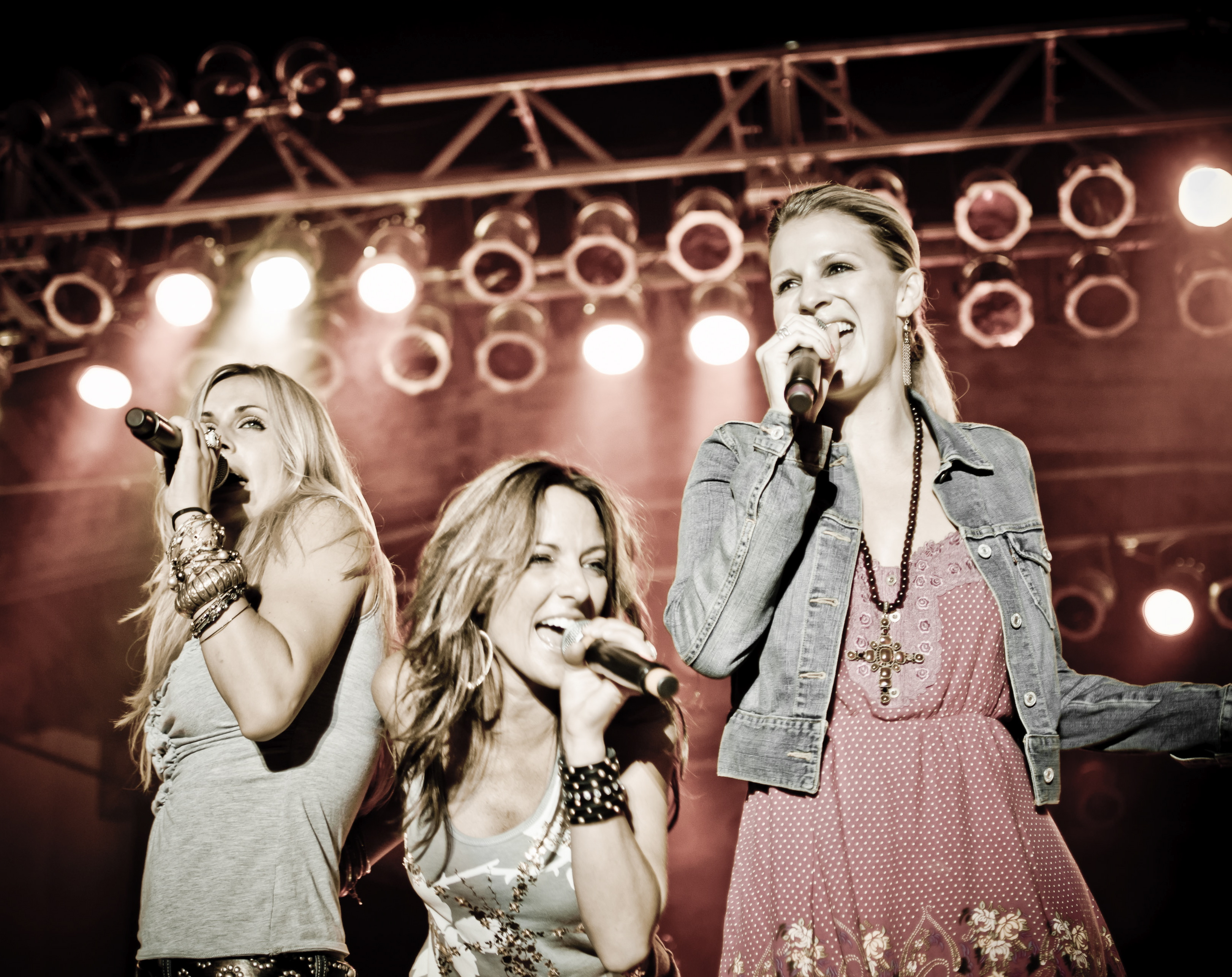 The musical country trio "Stealing Angels" live at Fresno in October of 2010.